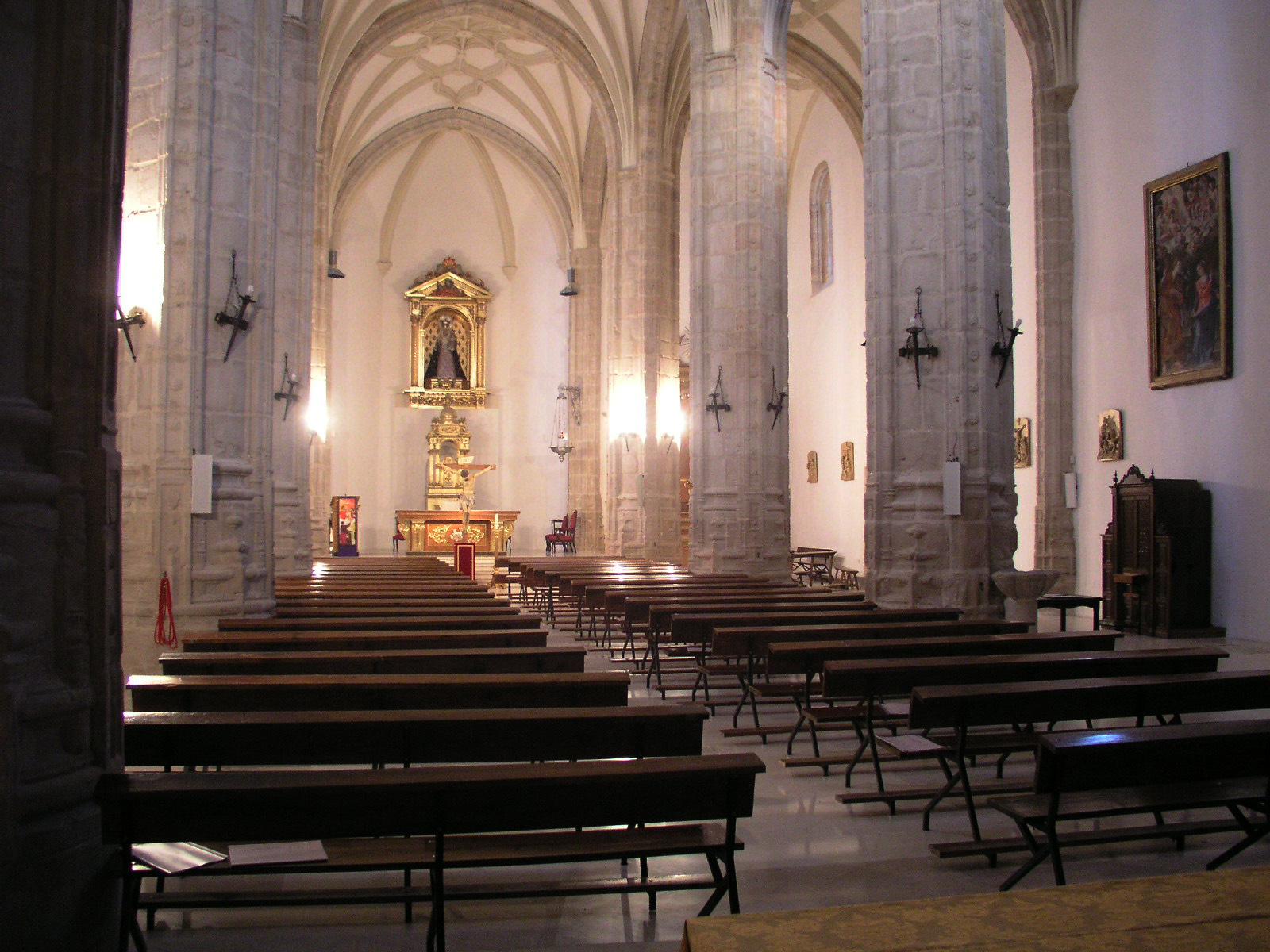 Cogolludo, province of Guadalajara, España. Nave of the church of Santa María.